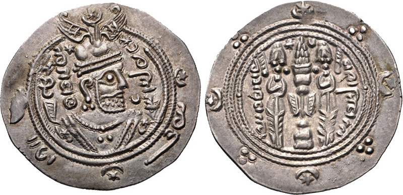 Dābūyid Ispahbads of Tabaristan.مازِرونی: اسپهبد گتِ فرخان ِسکه.